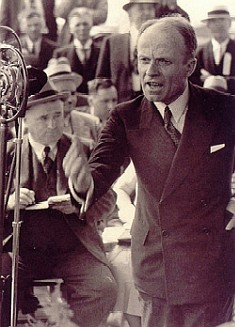 Adélard Godbout, leader of the Liberal Party of Quebec, in 1939, in Saint-Hyacinthe (Quebec), at the beginning of the 1939 Quebec provincial electoral campaign